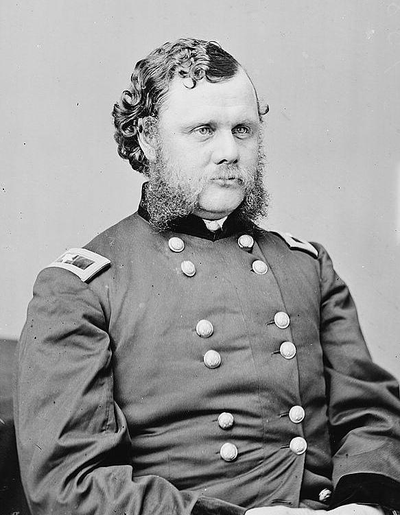 Portrait of Brig. Gen. Robert O. Tyler, officer of the Federal Army (Maj. Gen. from Aug. 1, 1864.